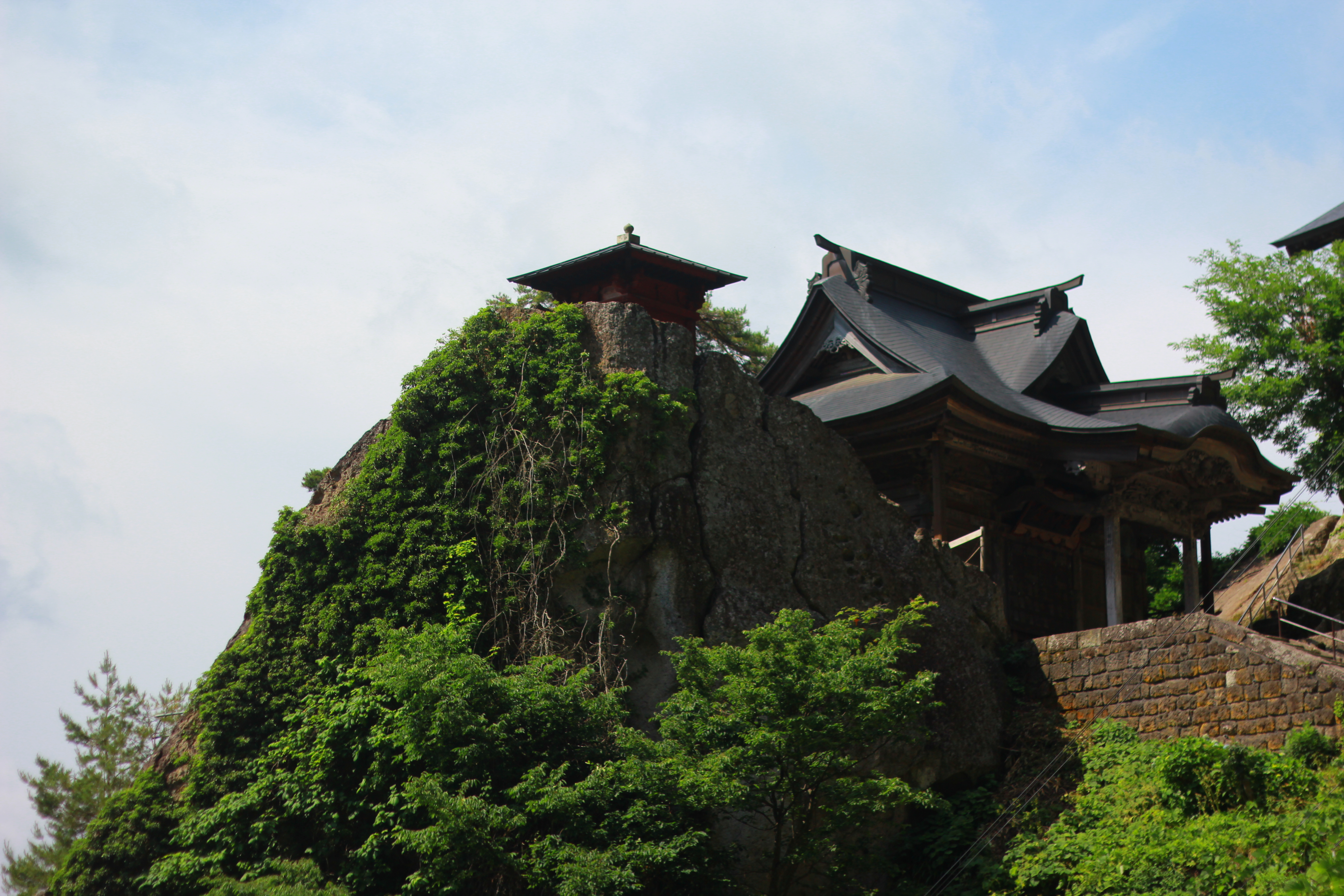 View of the Yamadera temple, in Yamagata, Japan.